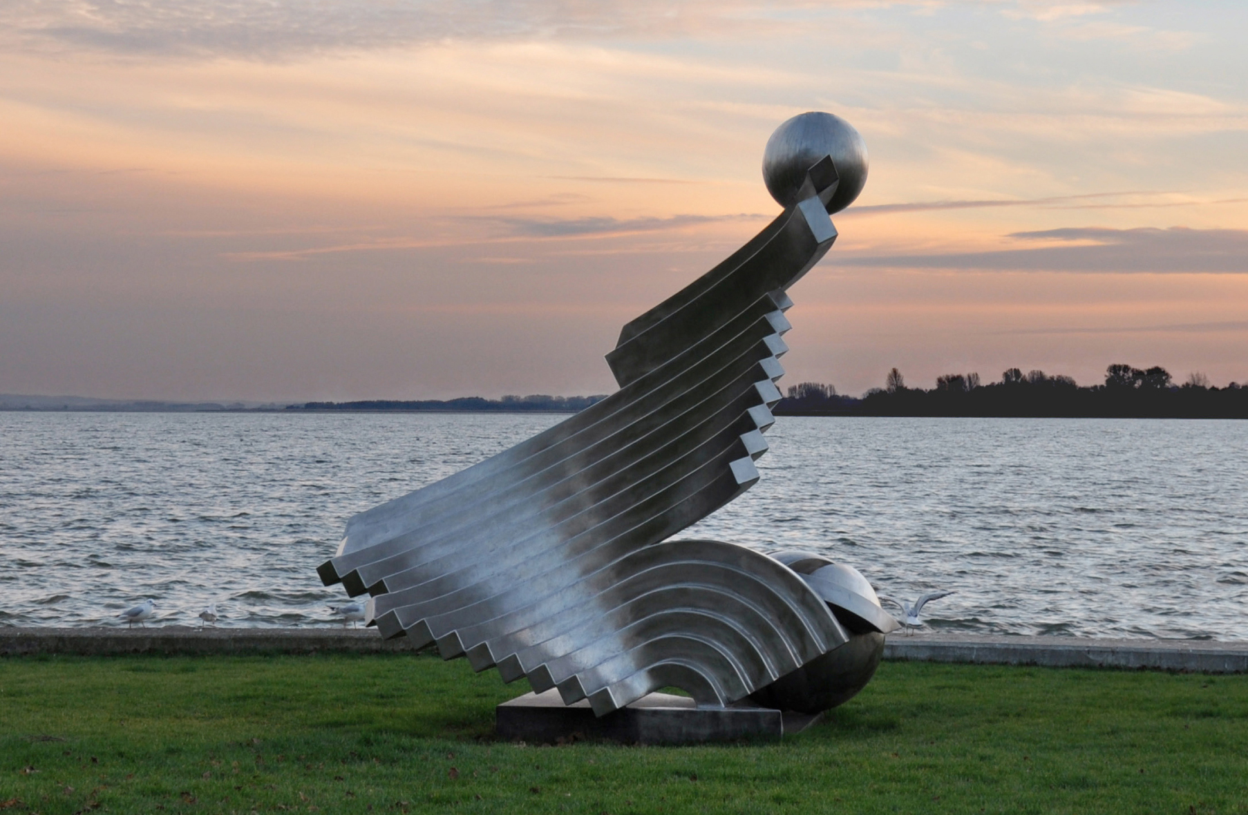 Sculpture "Big Wave" by Volkmar Haase. Location Prenzlau, Germany. 1991